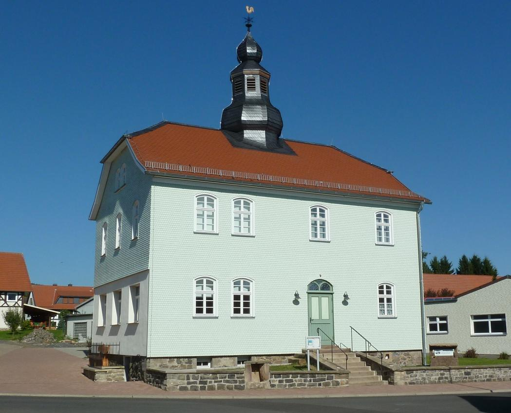 Old school building in Bermuthshain (Hesse, Germany), build in 1829 and 1830, today used by the Muna-Museum Grebenhain.